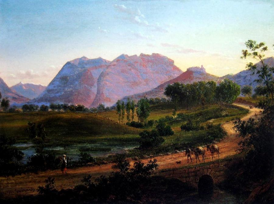 Landscape painting of the road to Naples through Campania. The painting is inscribed on the back "Marcianello near Mt Gorniano/ On the Mountain Road from Naples to Rome" Given the subject, it was probably made during one of Von Guerard's sojourns in Italy between 1826 and 1841. Medium: oil on board, 22 x 30.5 cm